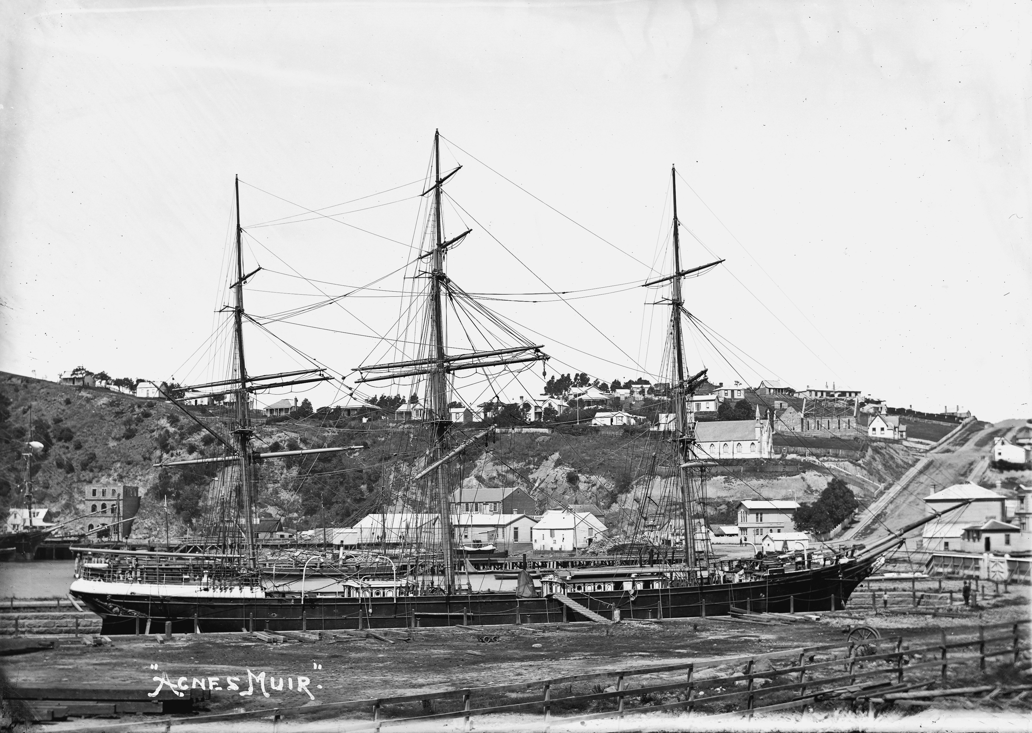 Sailing ship `Agnes Muir' in Port Chalmers